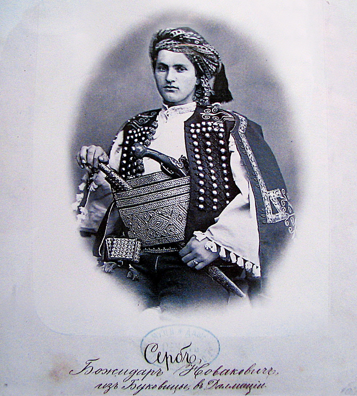 Serb from Dalmatia XIXc